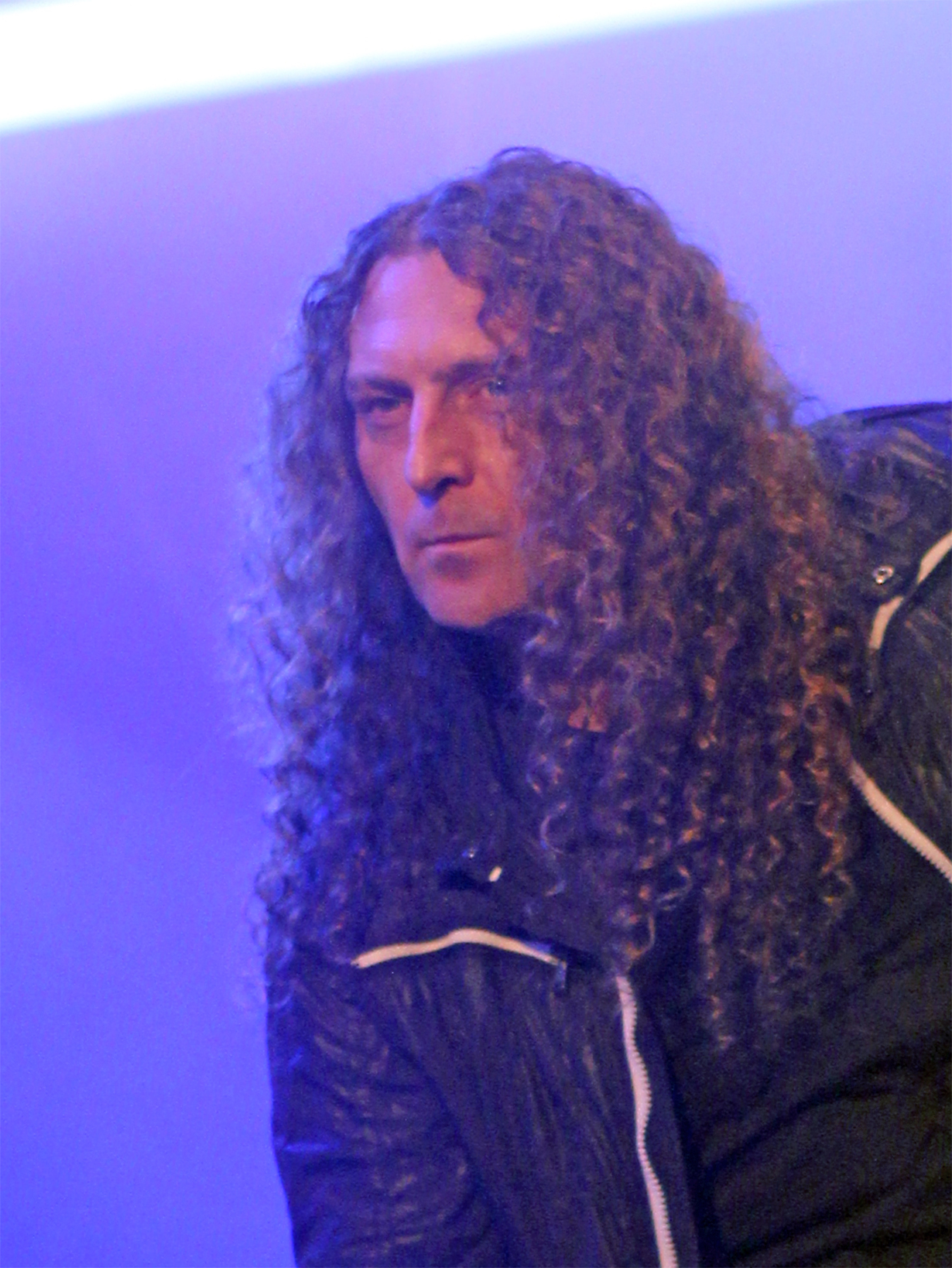 Fabio Lione with Rhapsody of Fire at the Rockharz Open Air 2014 in Ballenstedt/Germany